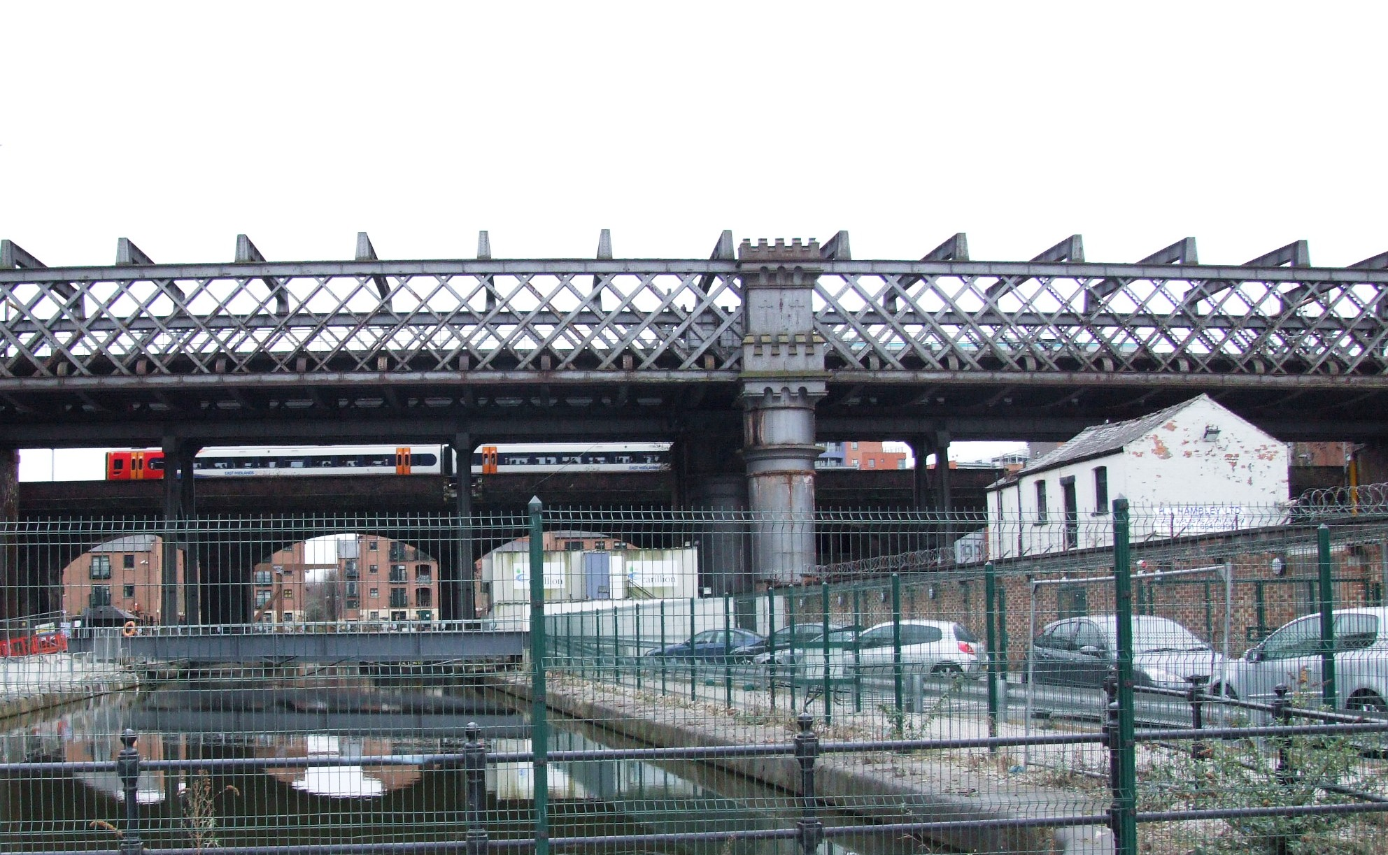 The Bridgewater Canal was commissioned by Francis Egerton, 3rd Duke of Bridgewater, to transport coal from his mines in Worsley to Manchester. Castlefield was the Manchester basin, and it was watered by the River Medlock. Potato Wharf